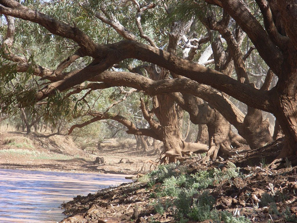 Combo Waterhole Queensland in a light dust haze. Probably the archetyp of a billabong, under the shade of a coolibah tree from the song "Waltzing Matilda" by Banjo Paterson.